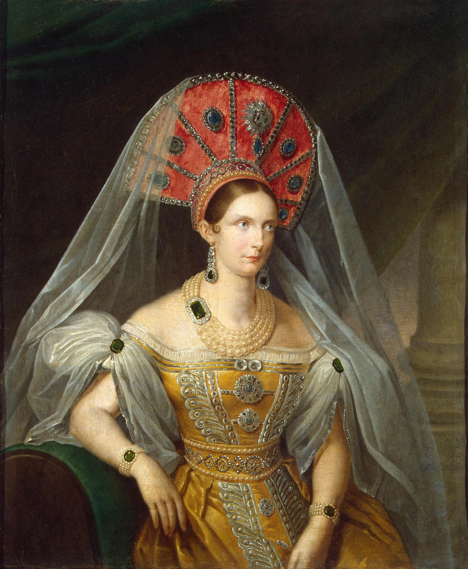 Portrait of Empress Alexandra Feodorovna (Charlotte of Prussia) (1798-1860)